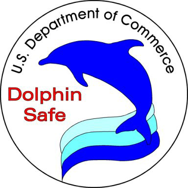 Dolphin safe tuna logo from the US Department of Commerce